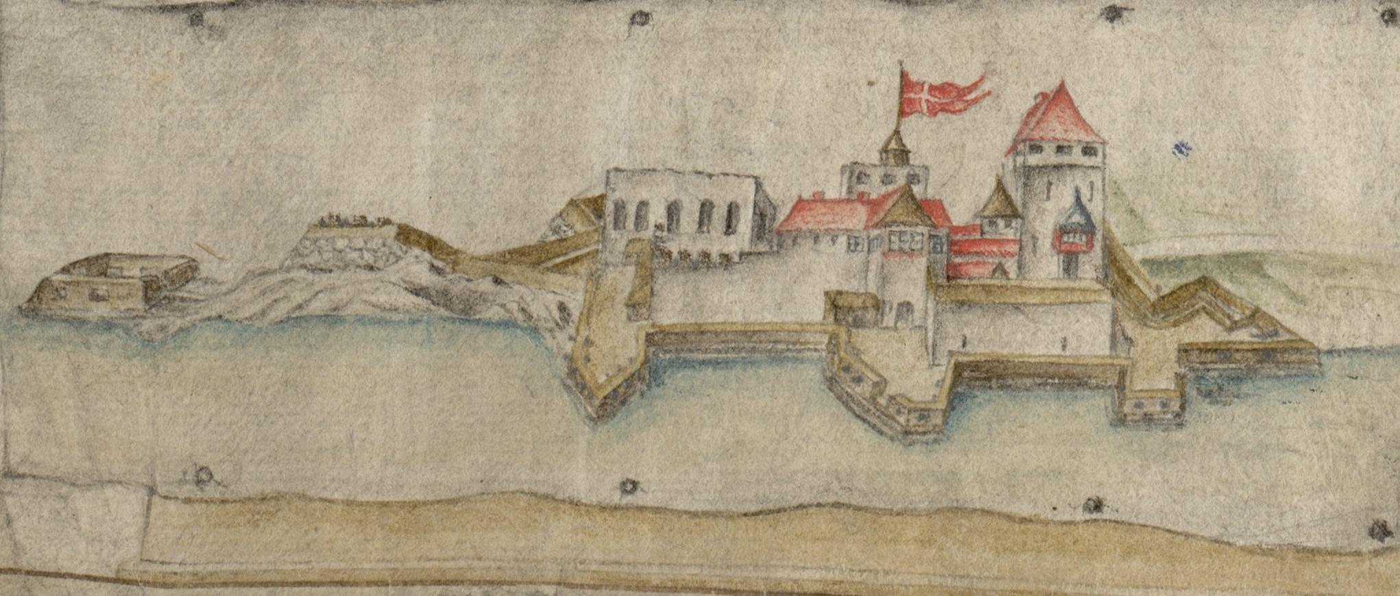 Detail of map over Bergen, 1653